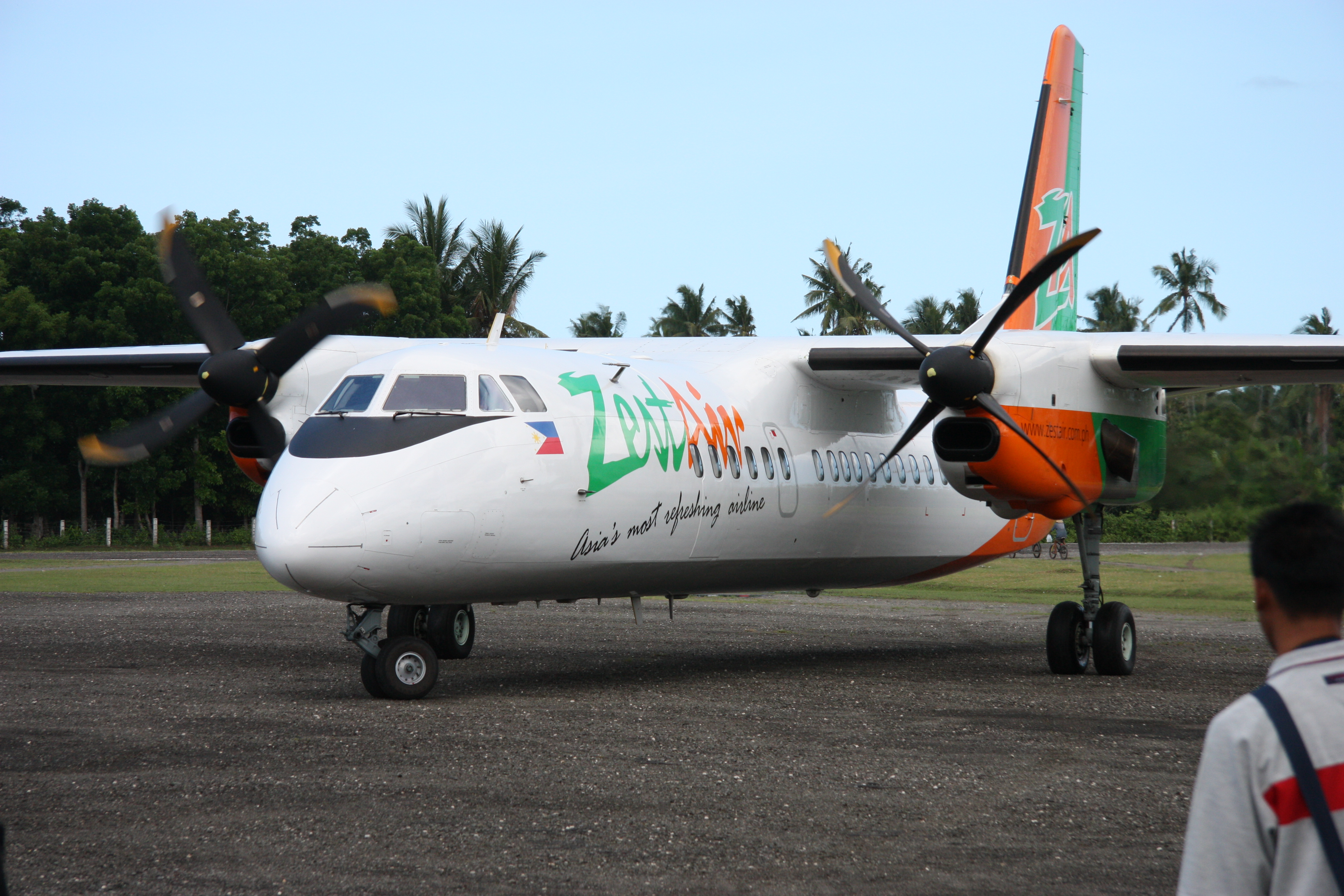 A Zest Airways Xian MA60, with tail number RP-C8892, arrives at the tarmac of Marinduque Airport in Gasan, Marinduque, Philippines. Tagalog: Isang Xian MA60 ng Zest Airways, na may bilang ng buntot RP-C8892, ay dumating sa rampang pampaliparan ng Paliparan ng Marinduque sa Gasan, Marinduque, Pilipinas.